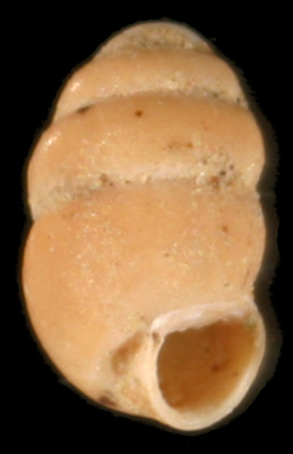 Photo of fossil shell of Vertigo genesii. Locality: France: Alsace, near Münchhausen. Date: before 1960. (In the source this image was incorrectly determinaed as Vertigo parcedentata.)